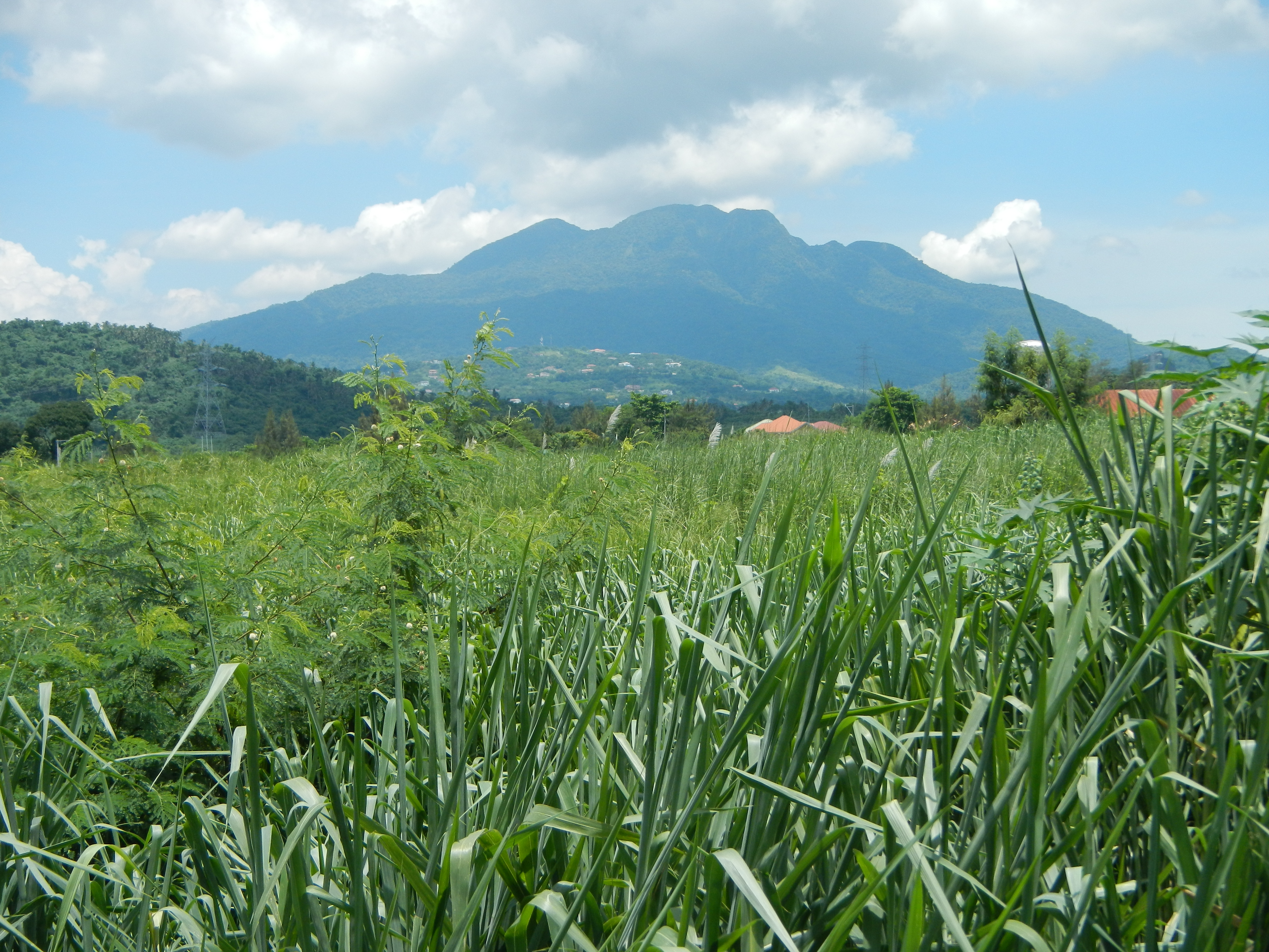 Turbina Bus Terminal (Prinza, Calamba City[1] - Pan-Philippine Highway[2]- The Pan-Philippine Highway, also known as the Maharlika "Nobility/Free People" Highway AH26 AH26 is a 3,517 km 2,185 mi network of roads, bridges, and ferry services that connect the islands of Luzon, Samar, Leyte, and Mindanao in the Philippines, serving as the country's principal transport backbone.[3] Maharlika Highway Daang Maharlika) - accessible if entered Exit 50 or Batangas Exit of SLEX. It passes through barangays Turbina, Tulo, and Makiling in Laguna, and continues through Batangas and ends at Lipa City. Along Maharlika Highway are numerous factories, warehouses, and other industrial sites that can be found in Calamba City, Laguna, and Sto. Tomas, Batangas). Mount Makiling [4] --- Turbina Bus Terminal (Prinza, Calamba City)[5] Coordinates: 14°11'4"N 121°8'8"E [6] near SLEX - Calamba (Turbina) Exit[Coordinates: 14°11'34"N 121°8'27"E] Calamba City[7] Calamba, Laguna. (I decided to re-photograph this scenic center of bus transportation, for it is the gateway and only path to Bicol province and other provinces, and the Mountain is blue and clear amid the so bright sun.)